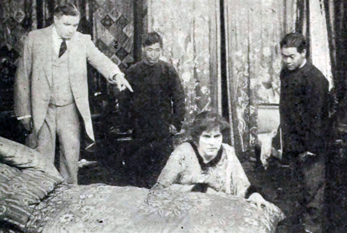 Illustration of a review in The Moving Picture World for the film Would You Forgive Her? (1916).